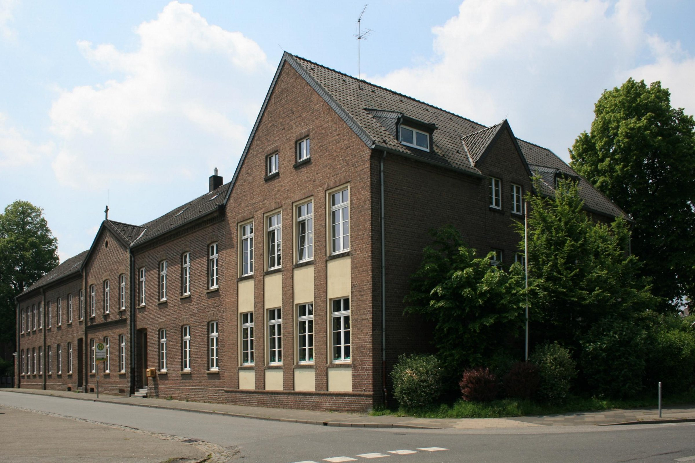 Cultural heritage monument No. A 013 in Mönchengladbach